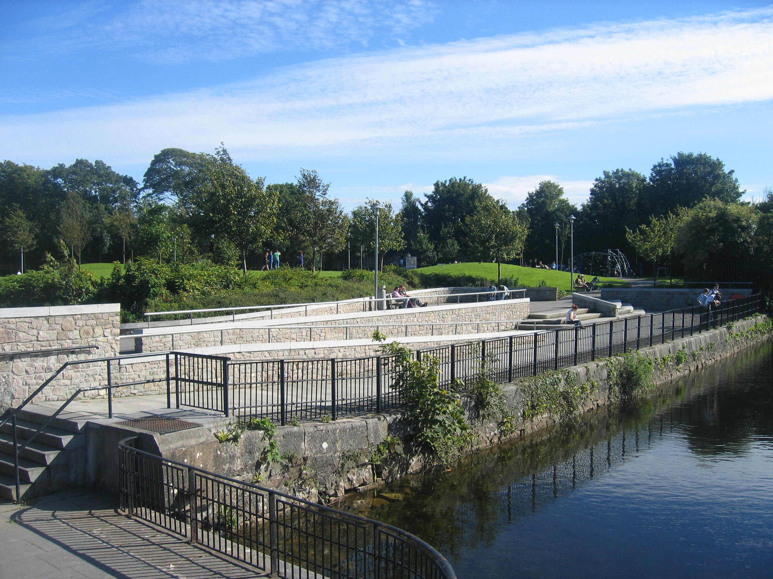 The Millennium Children's Park in Galway, next to one of the city's many canals. Taken by me, User:Sulmac, August 2007.